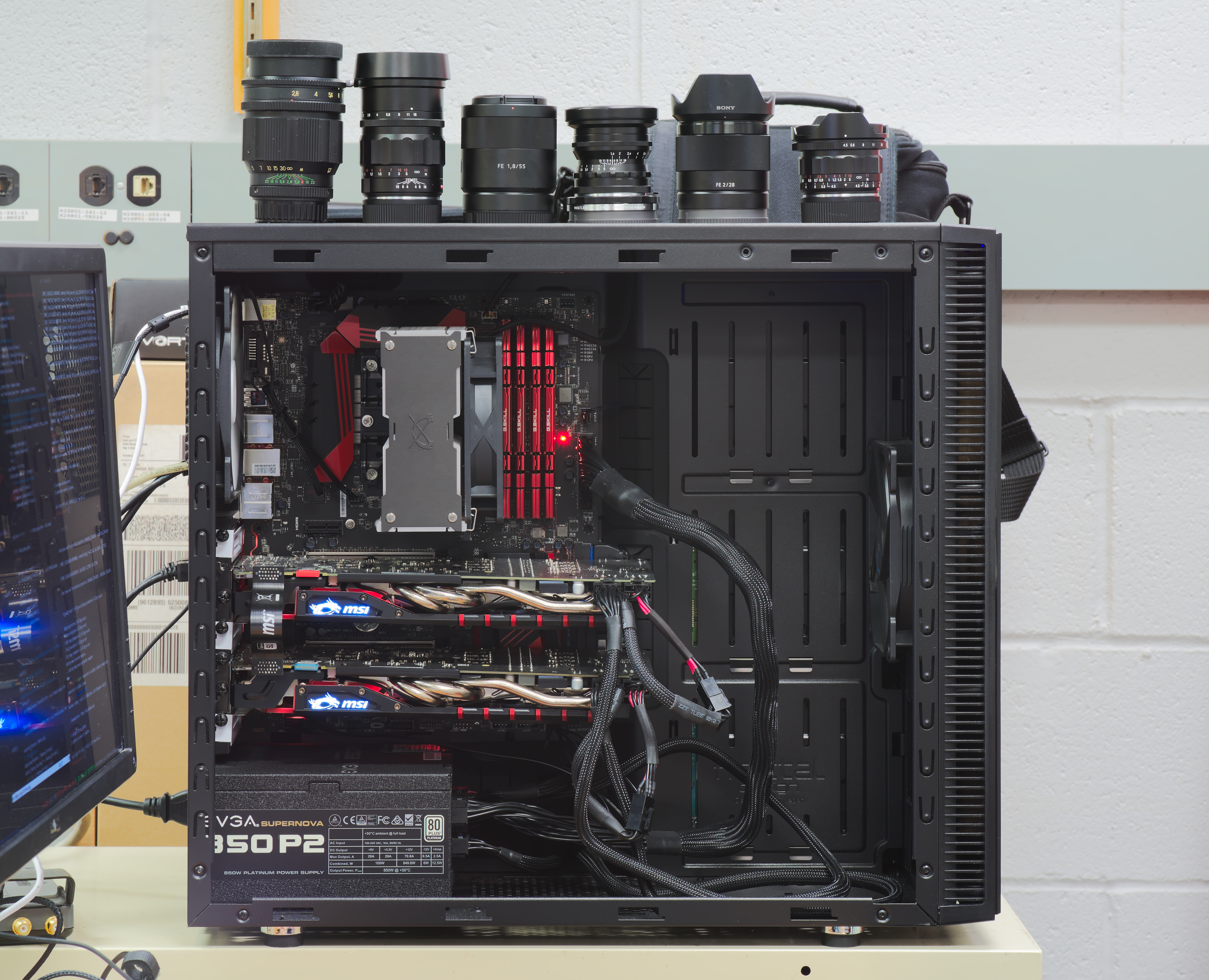 Personal computer of user:dllu. Intel Core i7 6700K, MSI Gaming M5 Z170 motherboard, 32 GB DDR4-2800 RAM, two NVIDIA GeForce GTX 980, 500 GB Samsung 850 Evo solid state drive, 250 GB Sandisk Ultra II solid state drive, 3 TB HGST Deskstar hard drive, 2 TB Western Digital Caviar Green hard drive. The case is a Fractal Design Define S. The monitor on the left is a Dell P2415Q. The lenses on the top from left to right are: Tair 11A (135mm f/2.8), Cosina Voigtländer 75mm f/1.8 Heliar Classic, Sony Zeiss FE 55mm f/1.8 ZA, Cosina Voigtländer 50mm f/1.5 Nokton, Sony FE 28mm f/2, Cosina Voigtländer 15mm f/4.5 Super Wide Heliar Asph III.